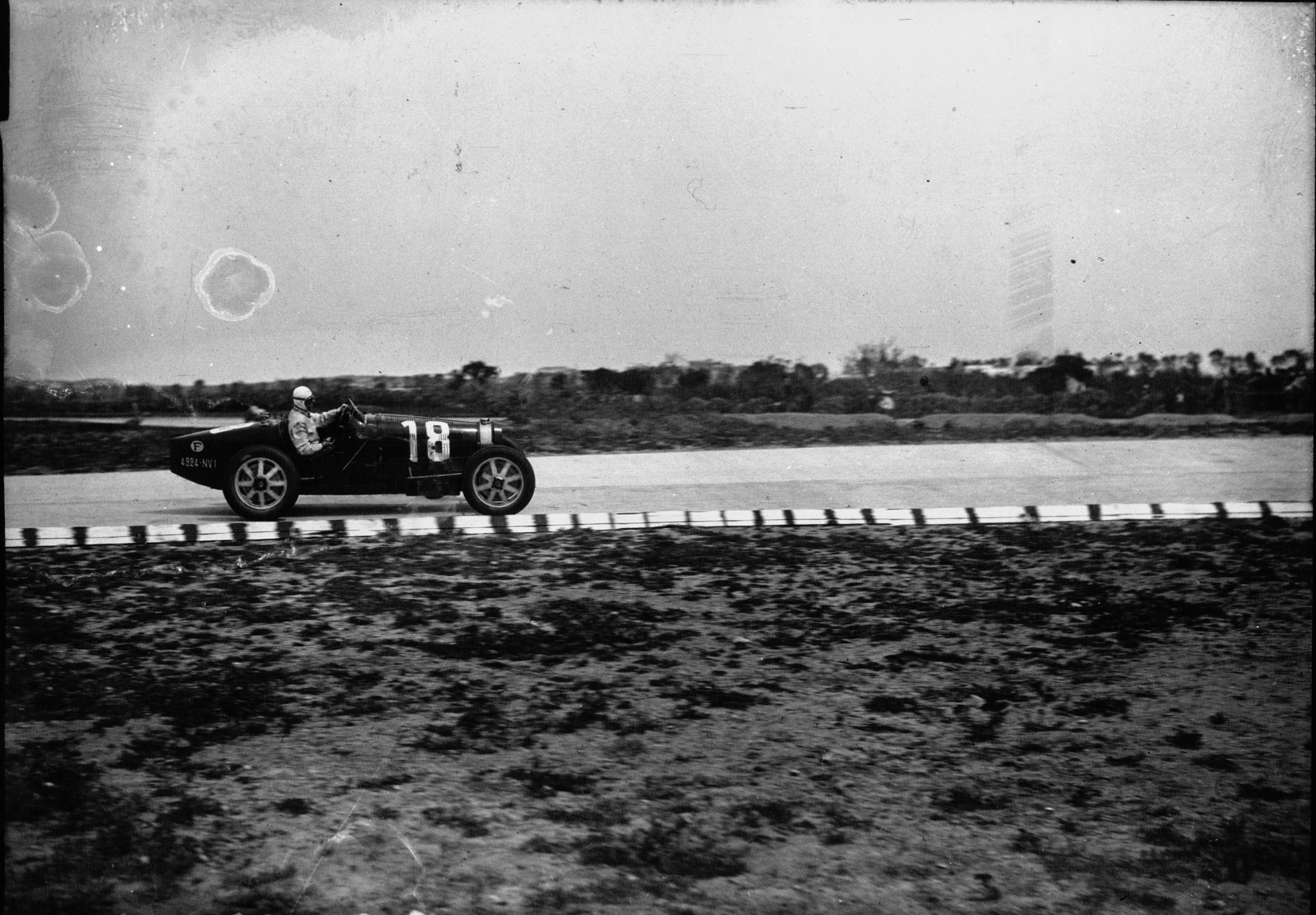 Achille Varzi at the 1932 Tunis Grand Prix